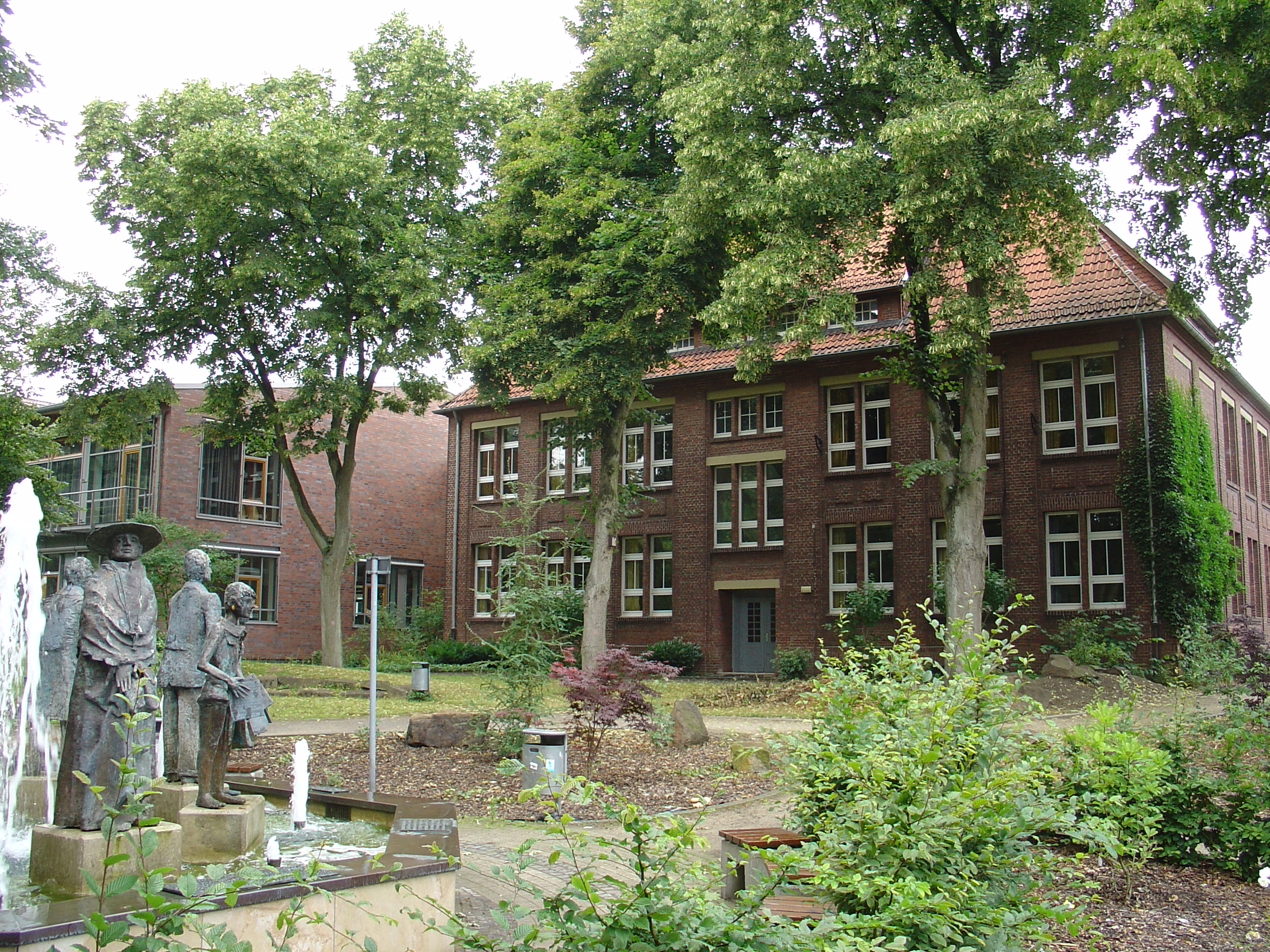 Grammar school of Harsewinkel